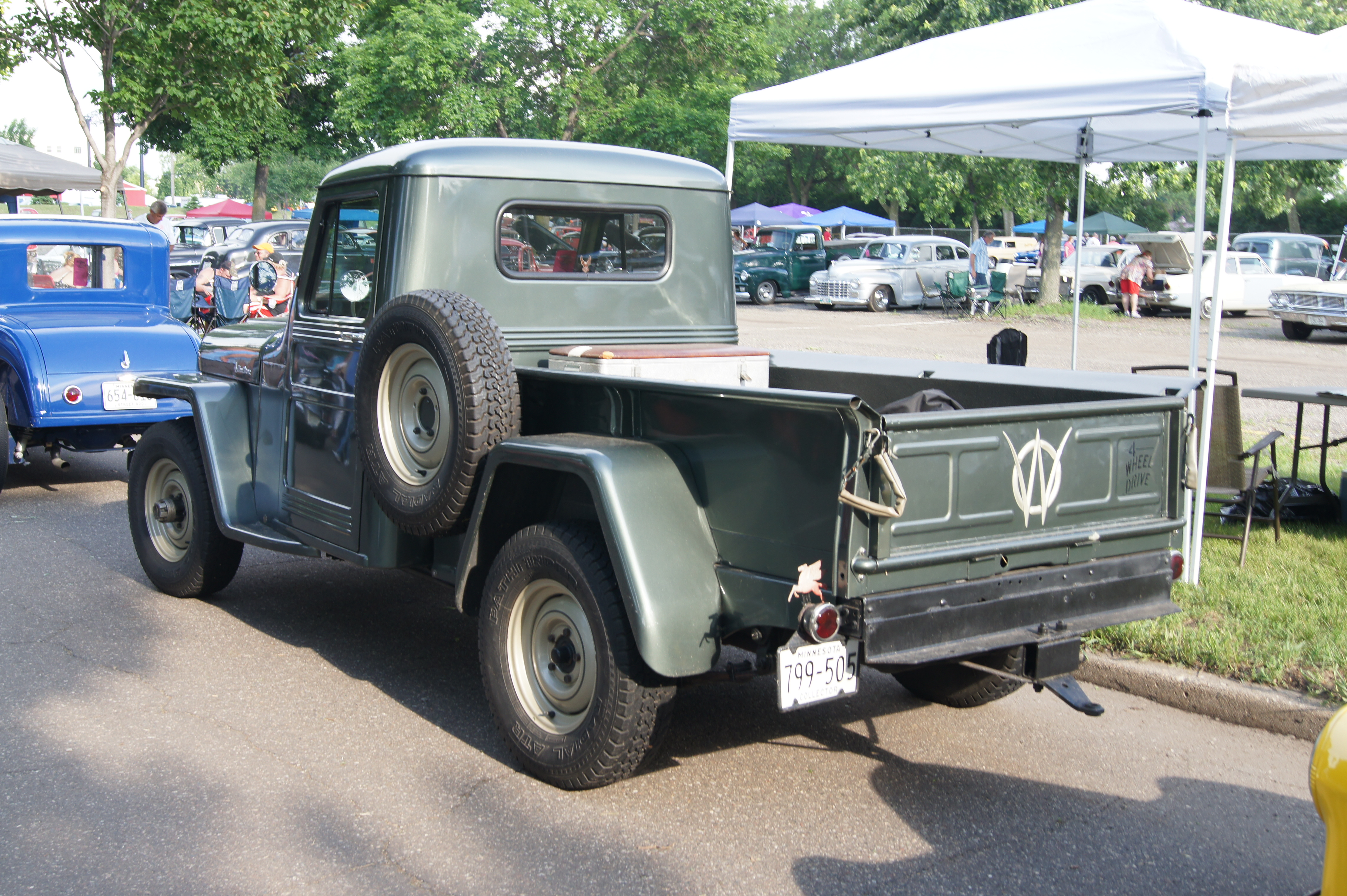 MSRA “BACK TO THE 50′s” 40th ANNIVERSARY June 21-23, 2013 State Fairgrounds St. Paul Minnesota More Car Pictures